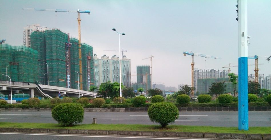 Southern District